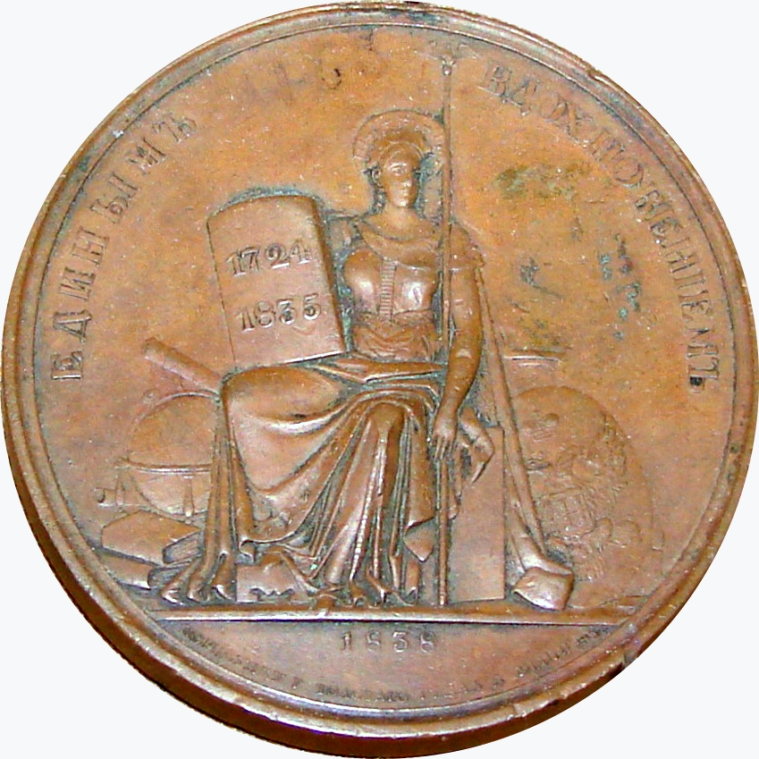 Russia, medal commemorating the opening of St. Petersburg University